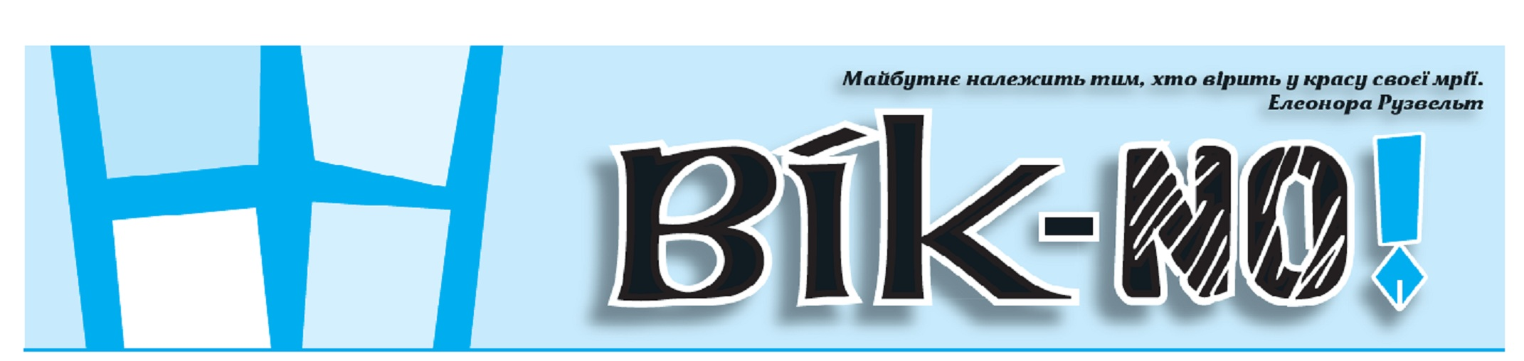 Vik-no-2008